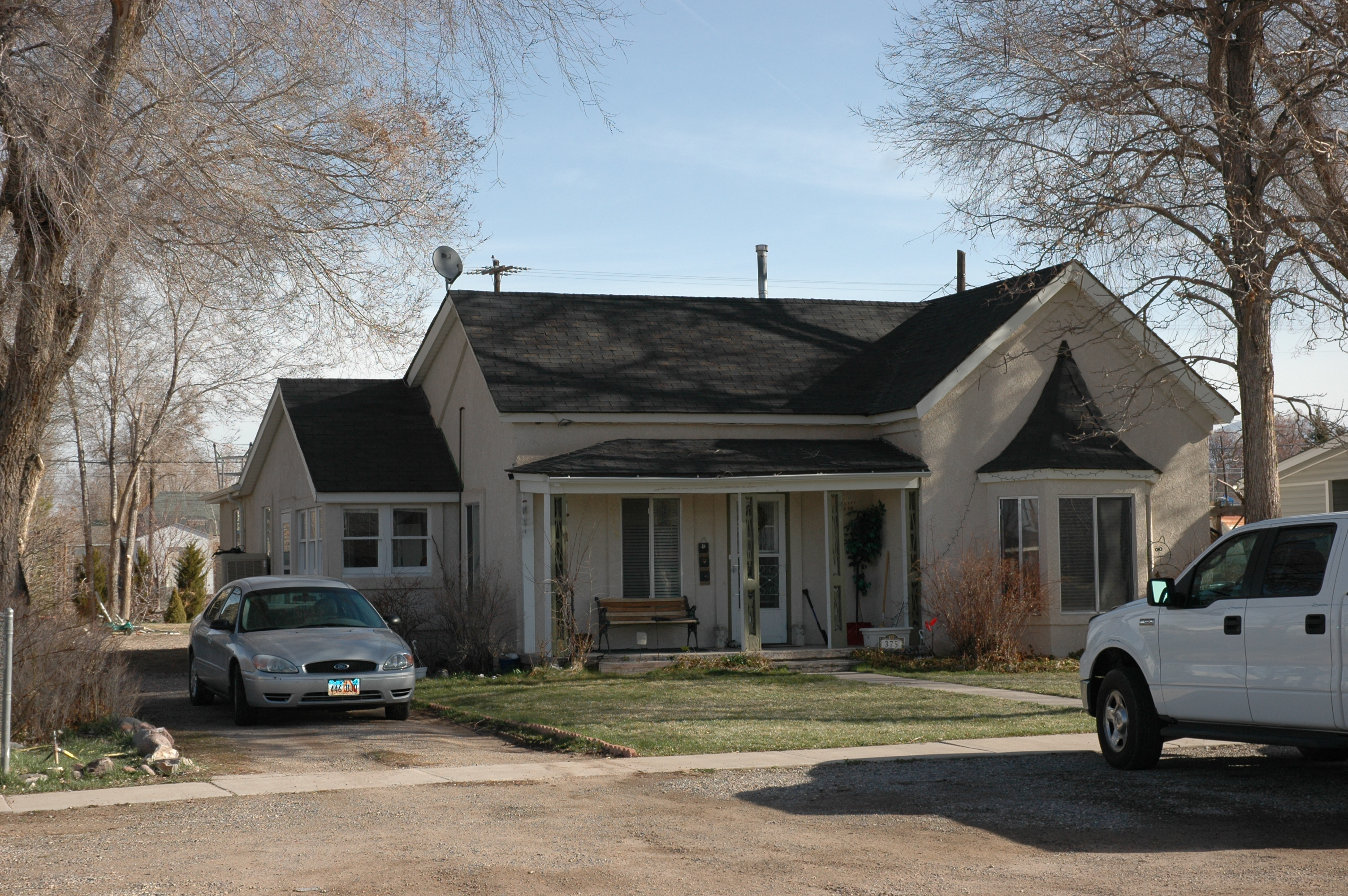 The Sarah Eliza Harris House, a historic home in Beaver, Utah, United States.